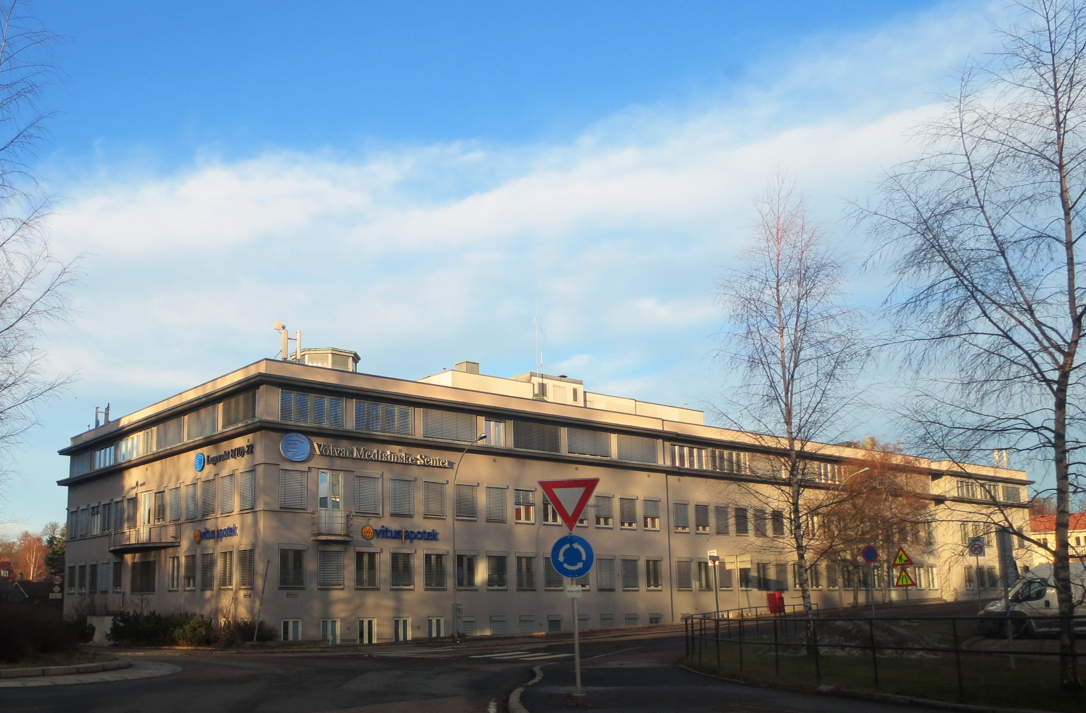 Volvat Medical Center, a private hospital in Oslo, Norway